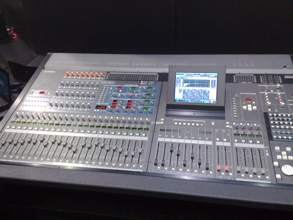 Expomusic 2010 Yamaha PM5D Digital Live Mixing Console